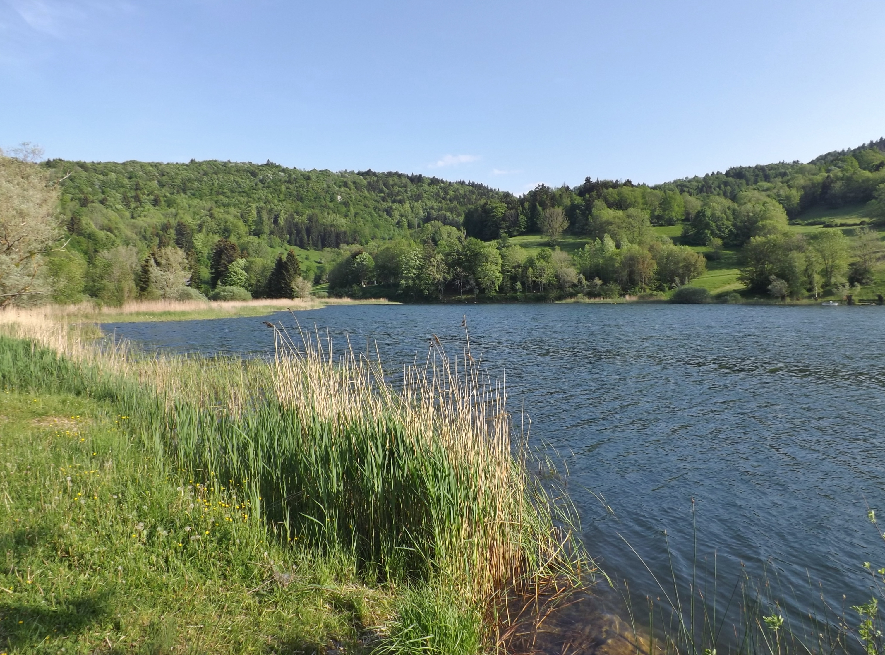 Sight of the lac de la Thuile lake and its southern side (forward), in the Bauges mountains, near Chambéry in Savoie, France.